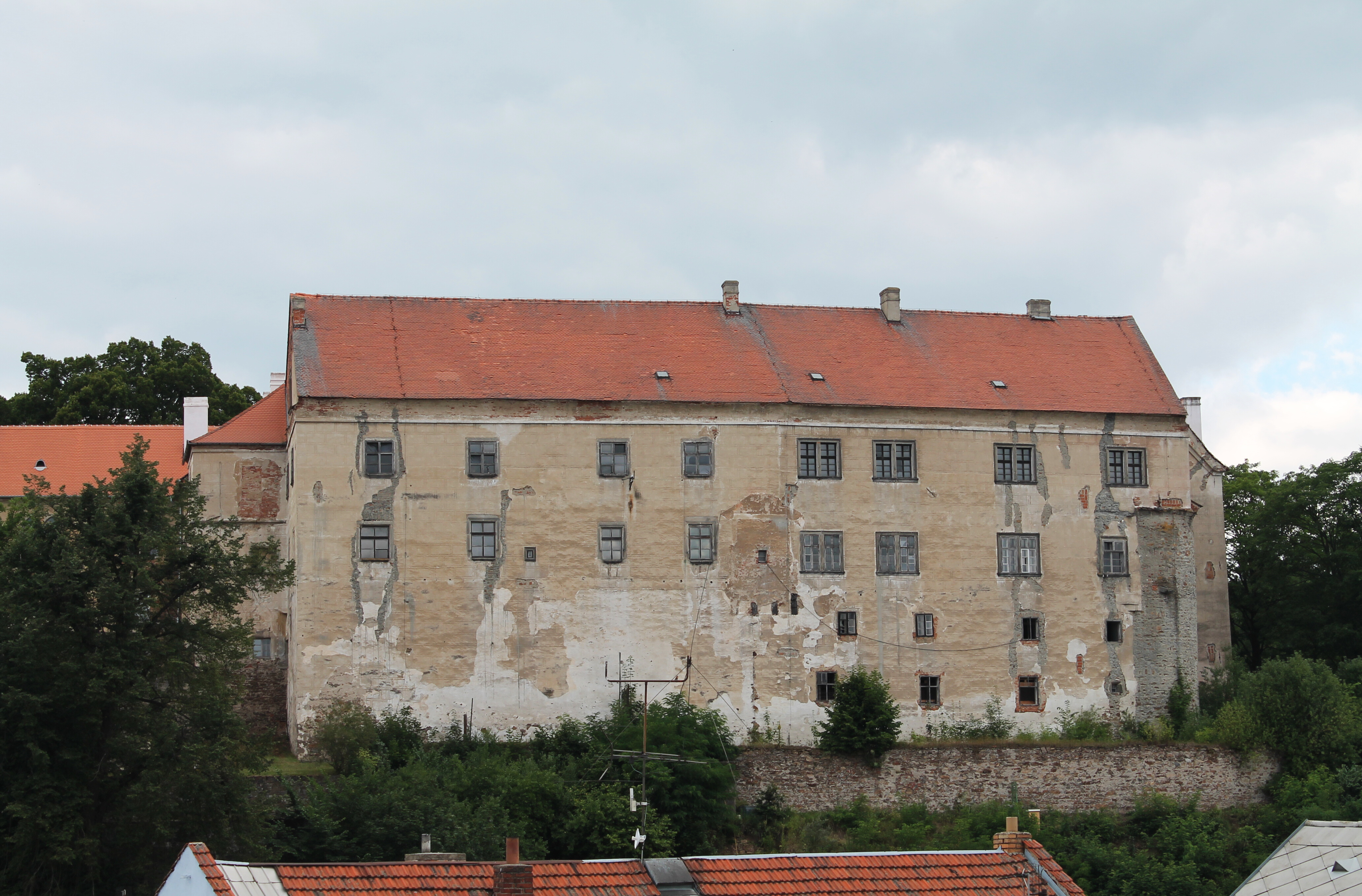 Brtnice Castle, Jihlava District, Czech Republic